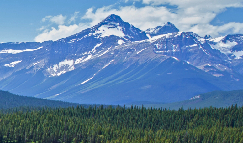 Mt. Outram from Icefields Parkway